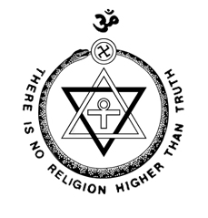 Theosophical Society Seal